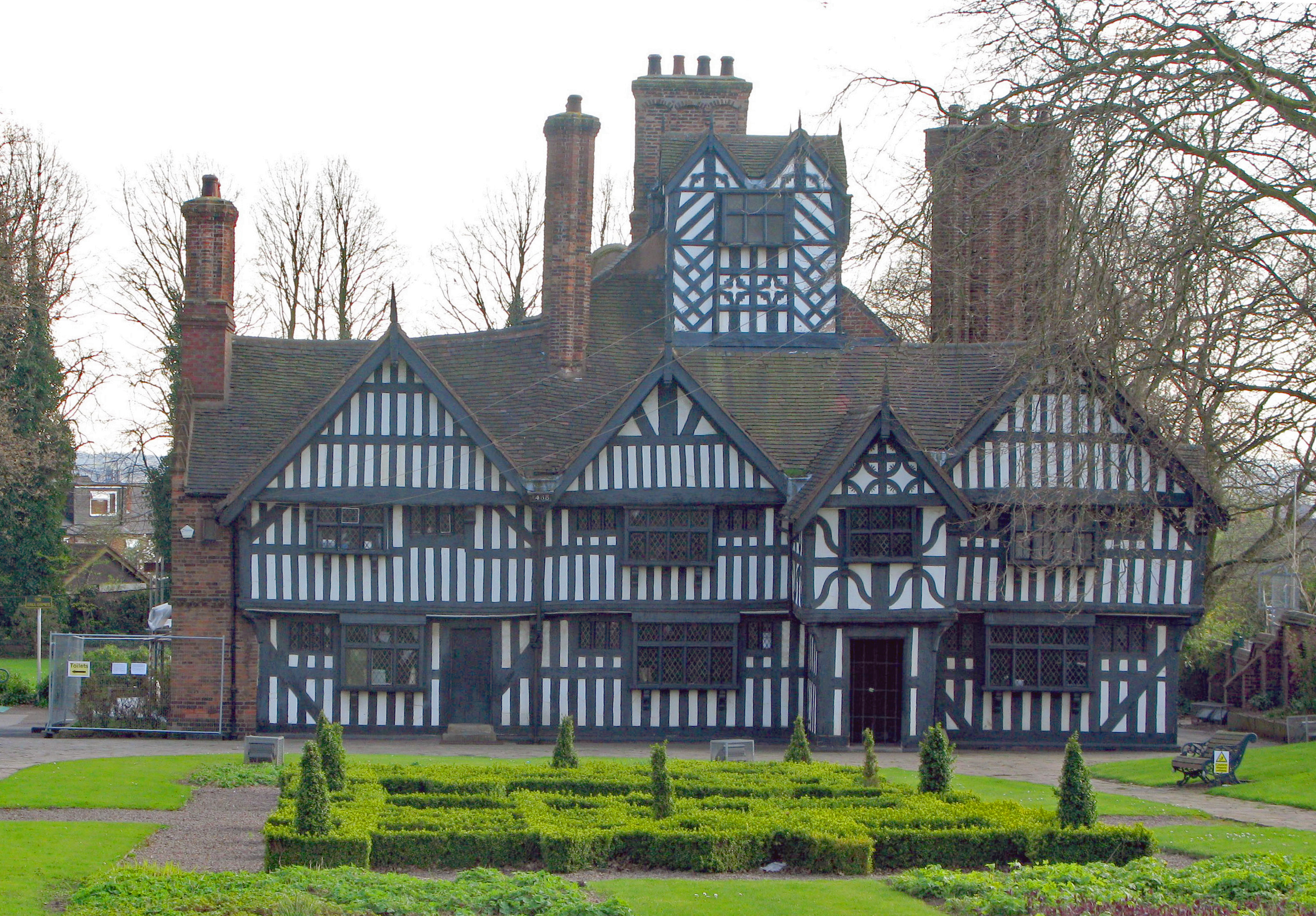 Grade II* Open to the Public Museum inside Free Entry